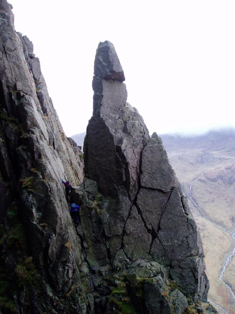 Napes Needle on Great Gable, Cumbria, England.